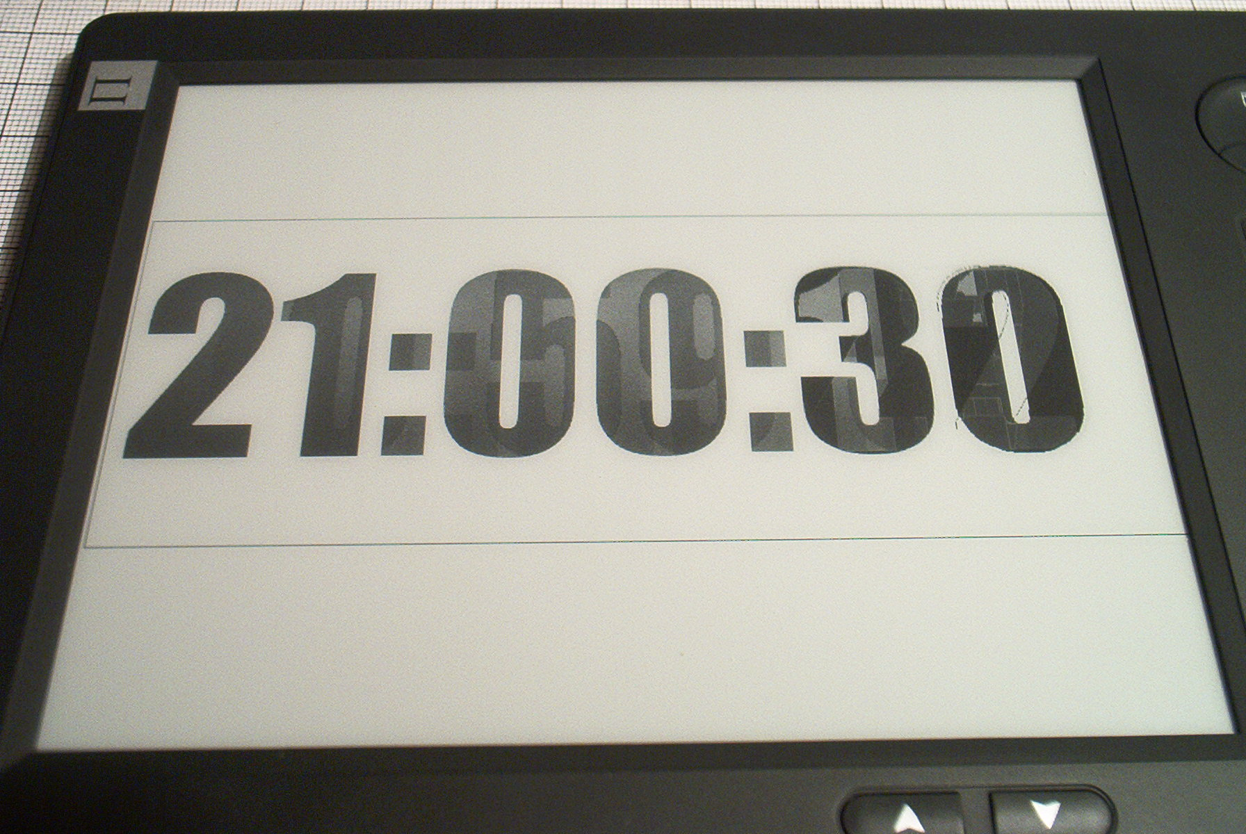 Papyre 6.1 e-book (a rebranded Hanlin V3) with OpenInkpot firmware, running xclock. The display retains the ghosts of previous times.